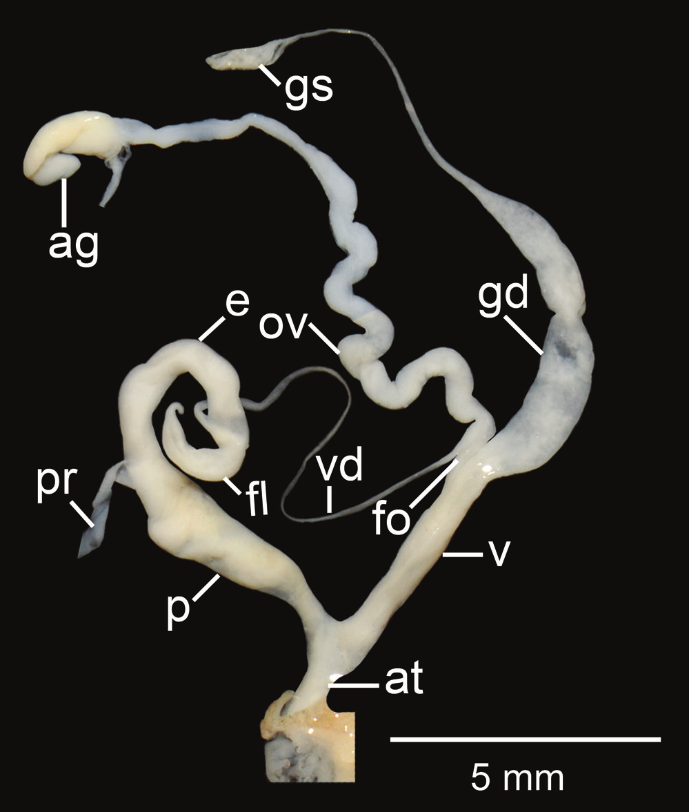 Photo of a reproductive system of Amphidromus areolatus from Thad Fek, Attapeu, Laos (CUMZ 7023). Scale bar is 5 mm.